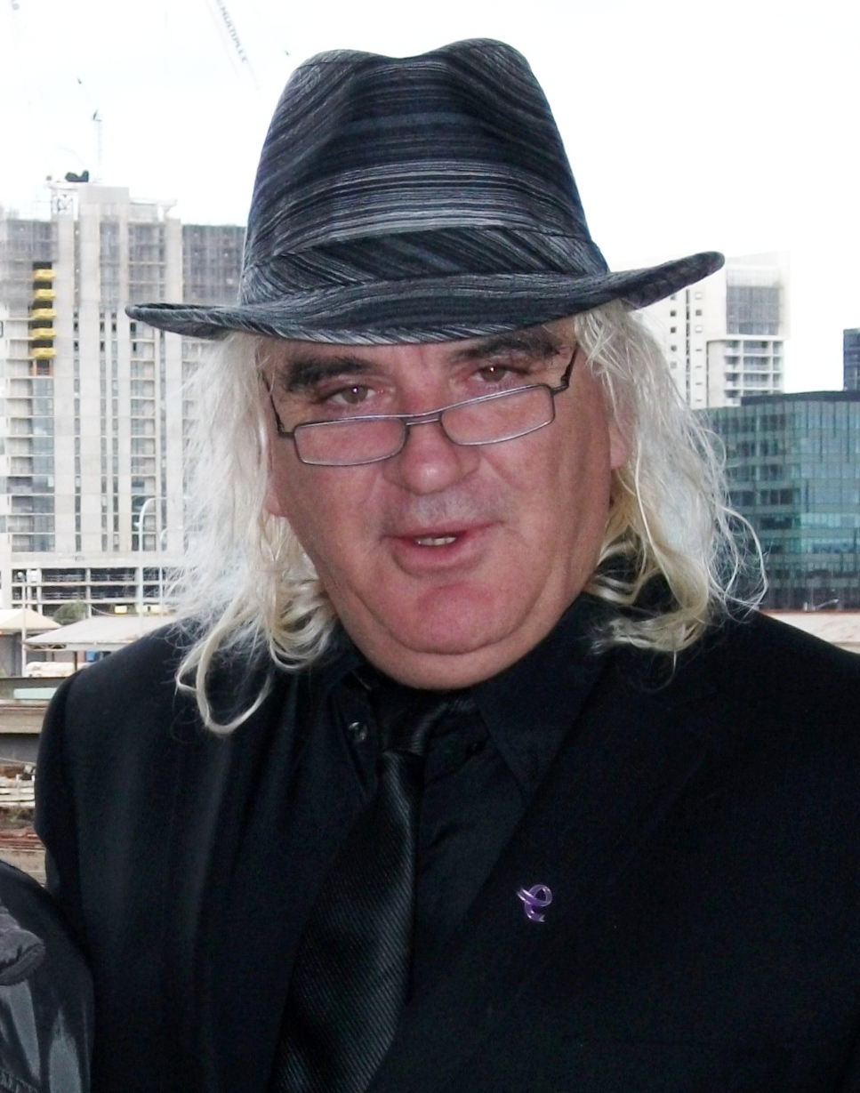 Photo of Joffa Corfe